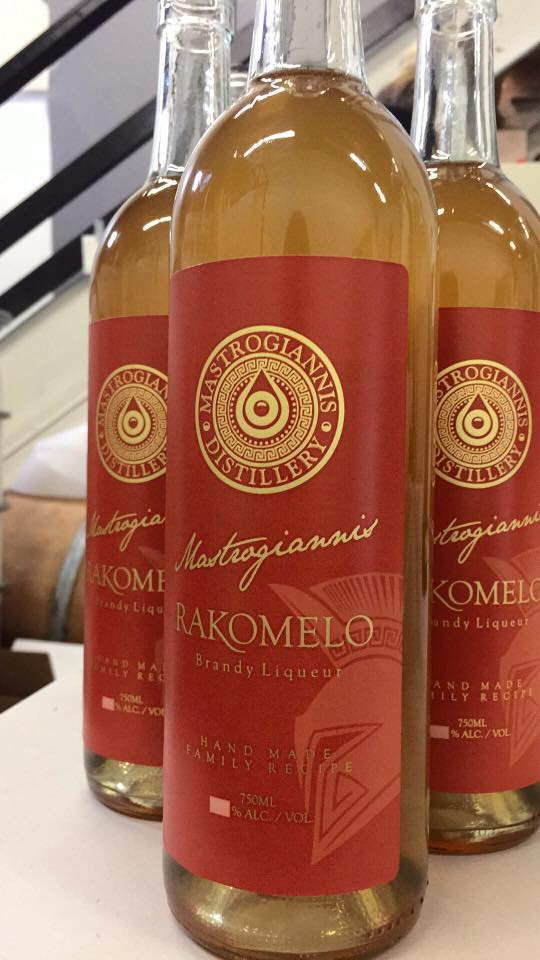 Mastrogiannis Rakomelo